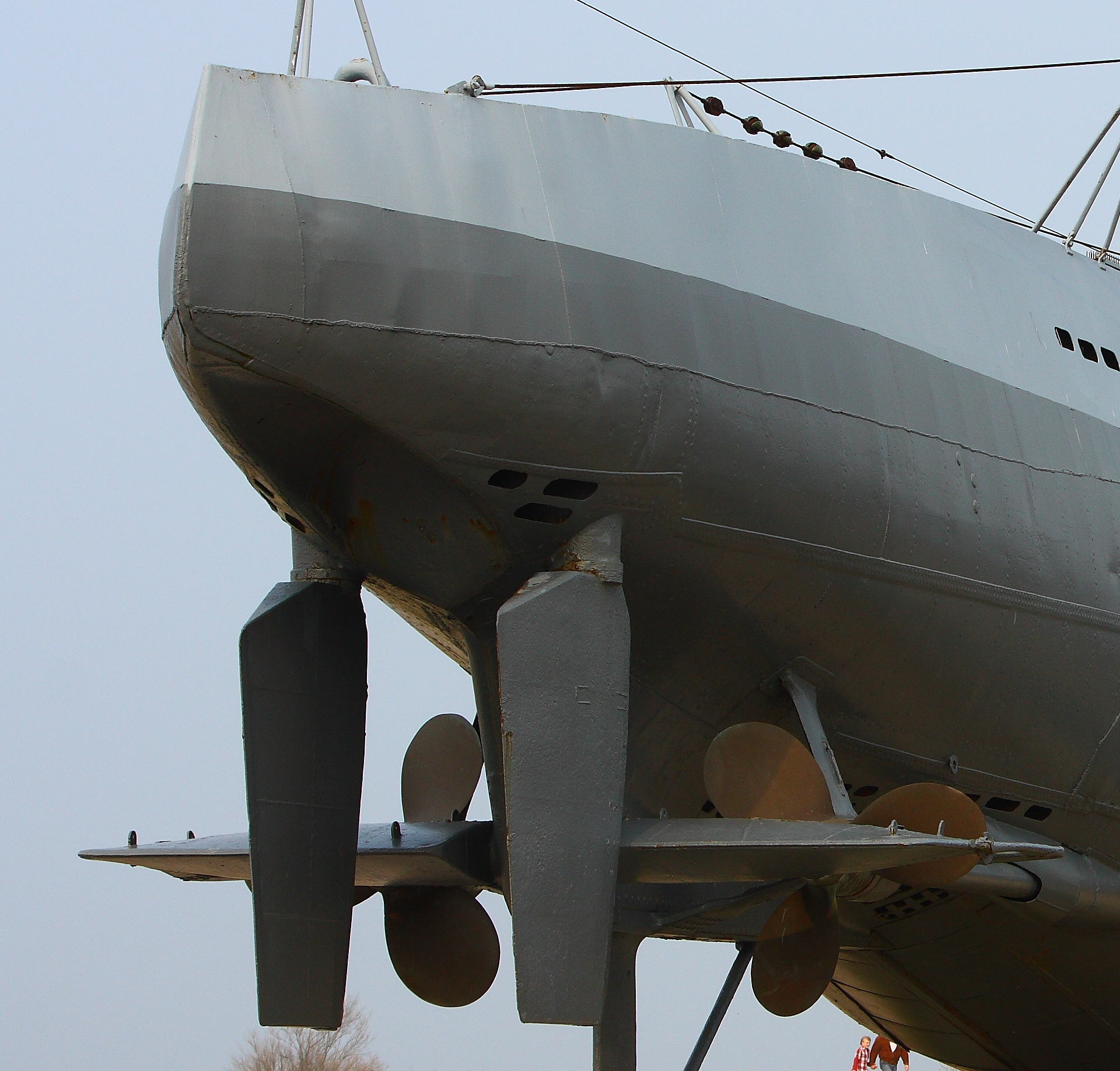 Type VIIC submarine stern. Configuration of stern with double rudders aft of propellers and after planes visible.